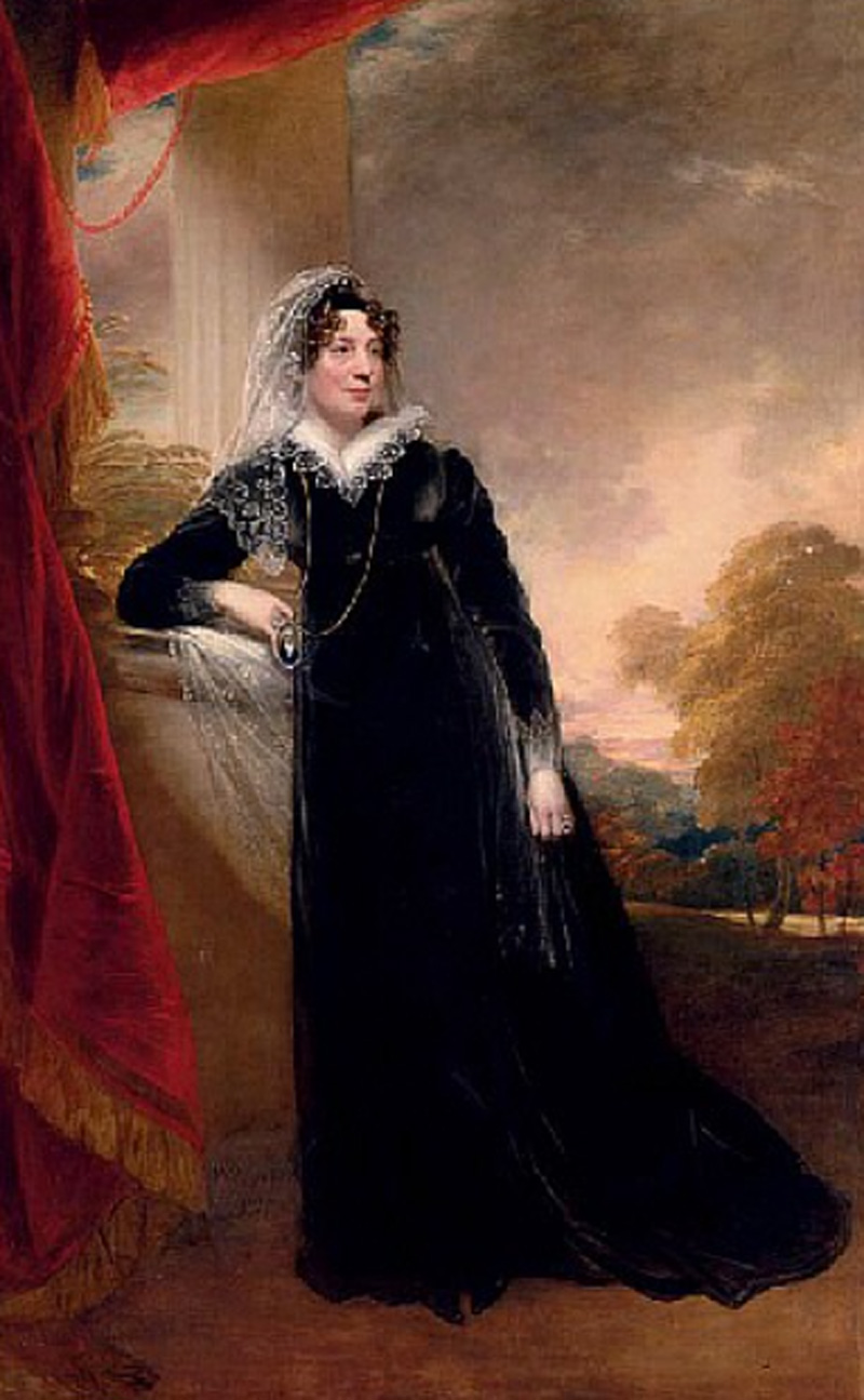 Margaret Bewicke, wife of Calverley Bewicke owner of Close House, Heddon-on-the-Wall, Northumberland.